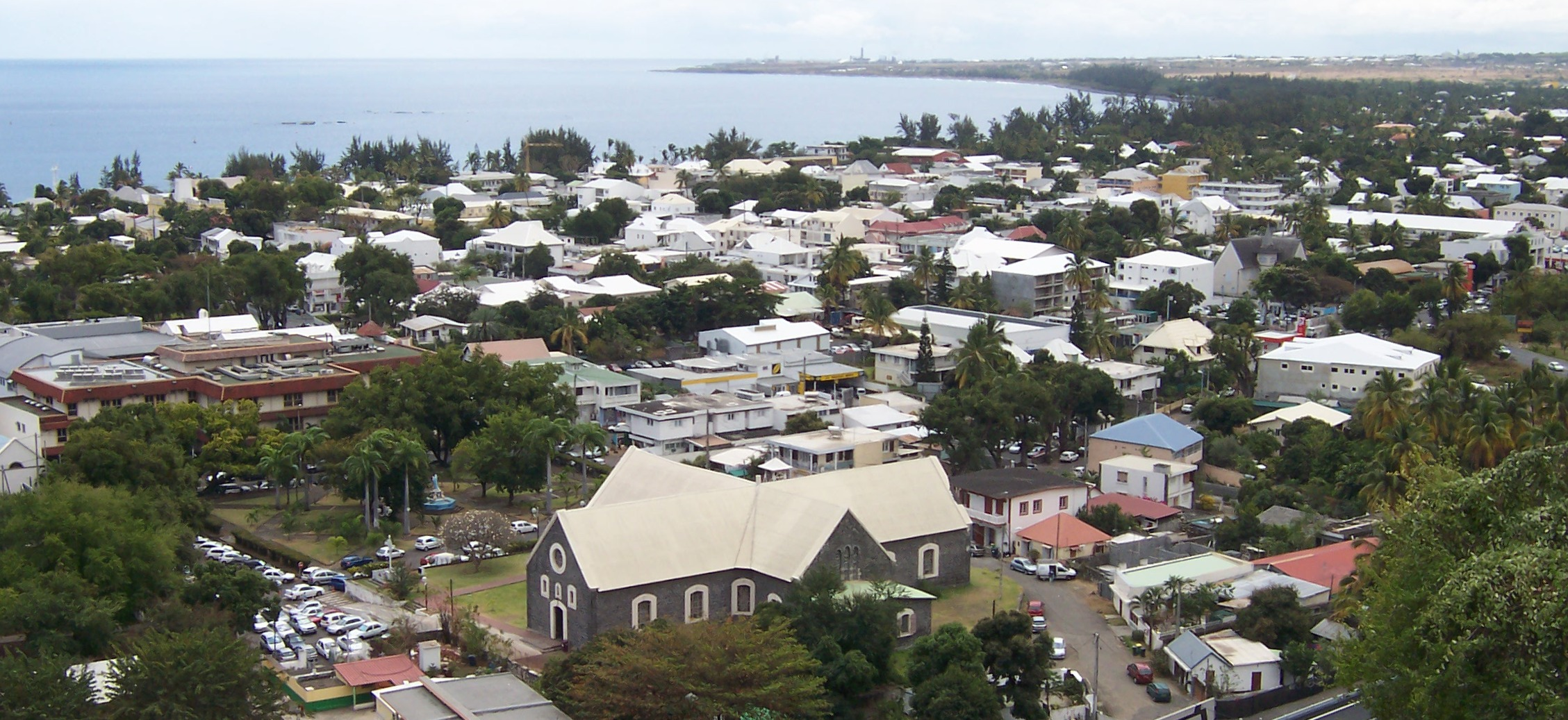 View over the towncenter and the gulf of Saint-Paul (Reunion island) Photo : B.navez - SEP 2005